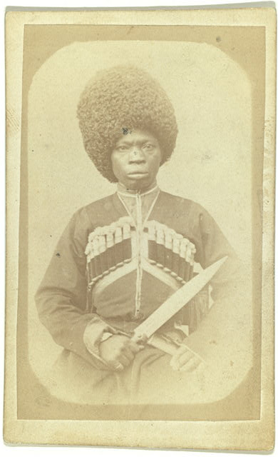 Three-quarter length portrait of man, seated, facing front. Inscribed on verso: Karabakhski "Arab" Negro mountainier